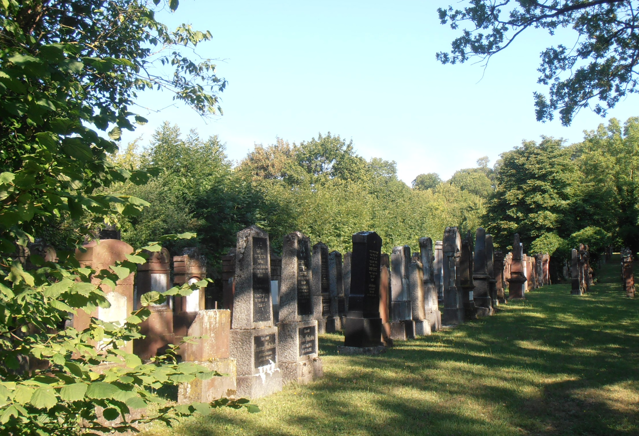 בית עלמין Jewish cemetery in CRH